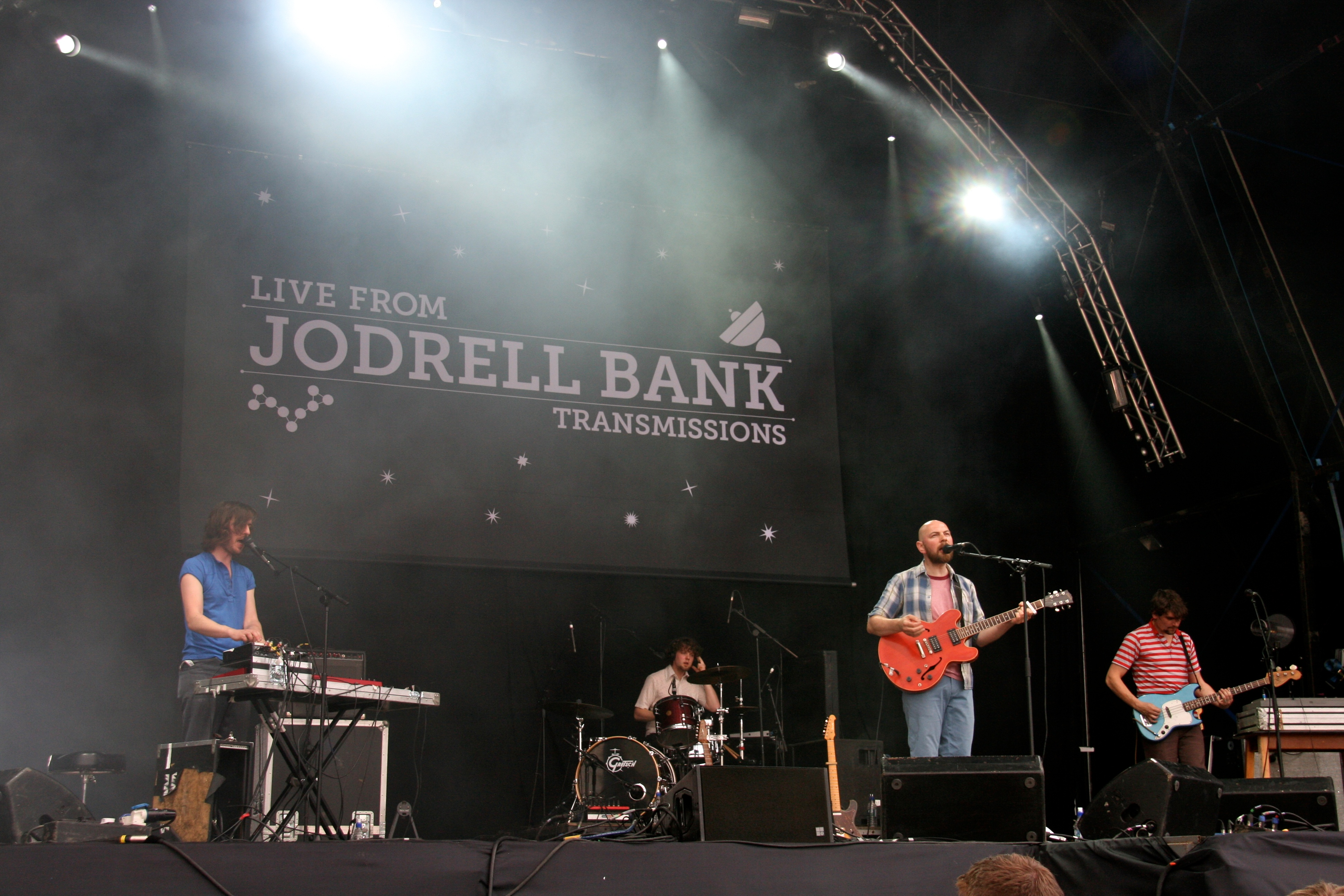 The Wave Machines performing at Jodrell Bank Live at Jodrell Bank Observatory